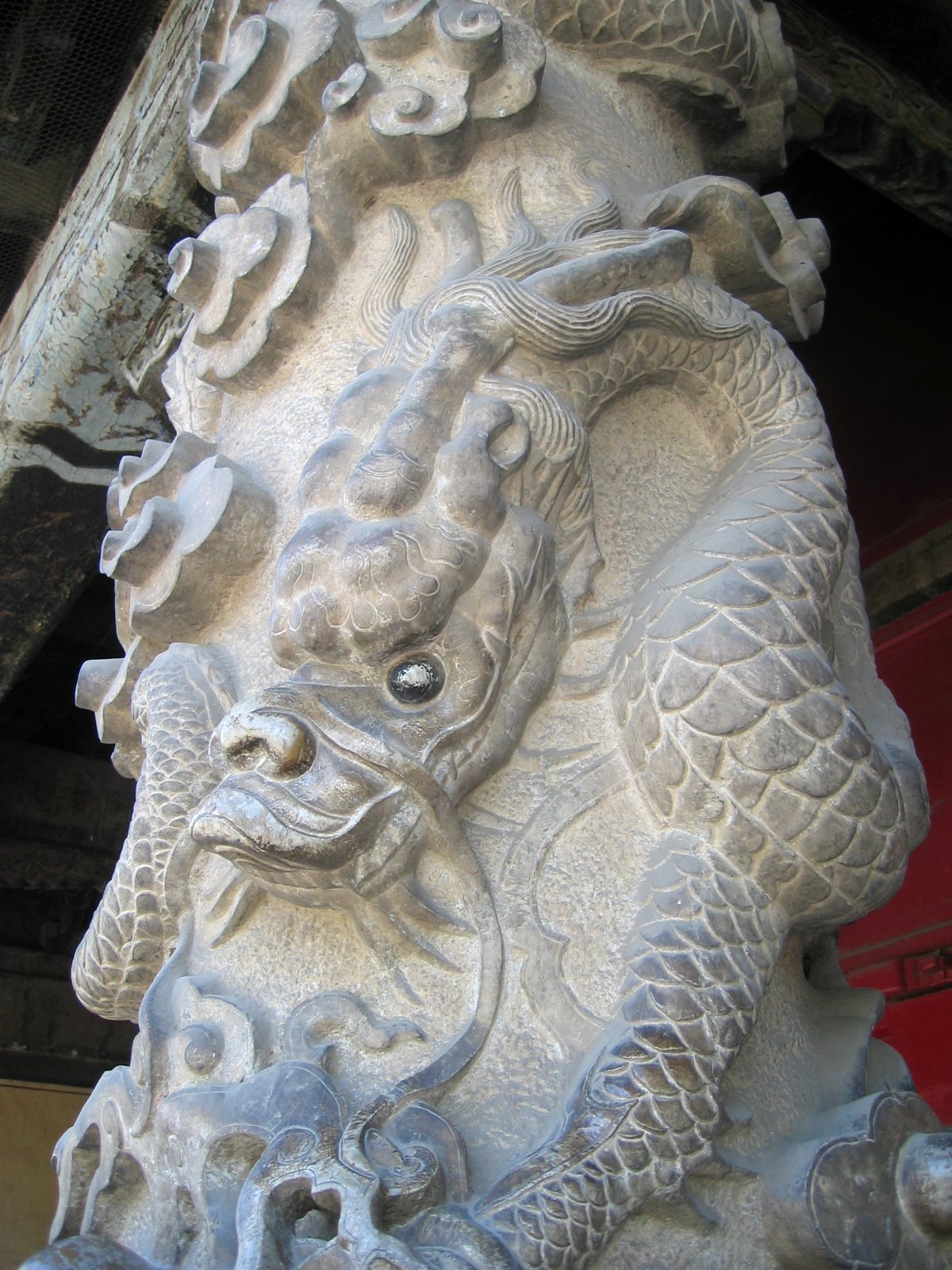 Photograph of a stone pillar with carved dragon motive in the front of the Dacheng Hall, which forms the center of the Confucius Temple in Qufu, Shandong Province, China. Photograph taken on April 21, 2005 by Rolf Müller.